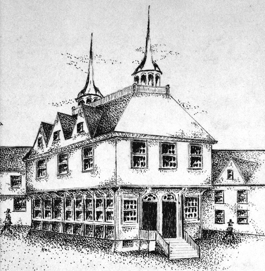 The First Town House, 17th century. 1898 (approximate). Copy photograph from drawing, possibly a tracing.